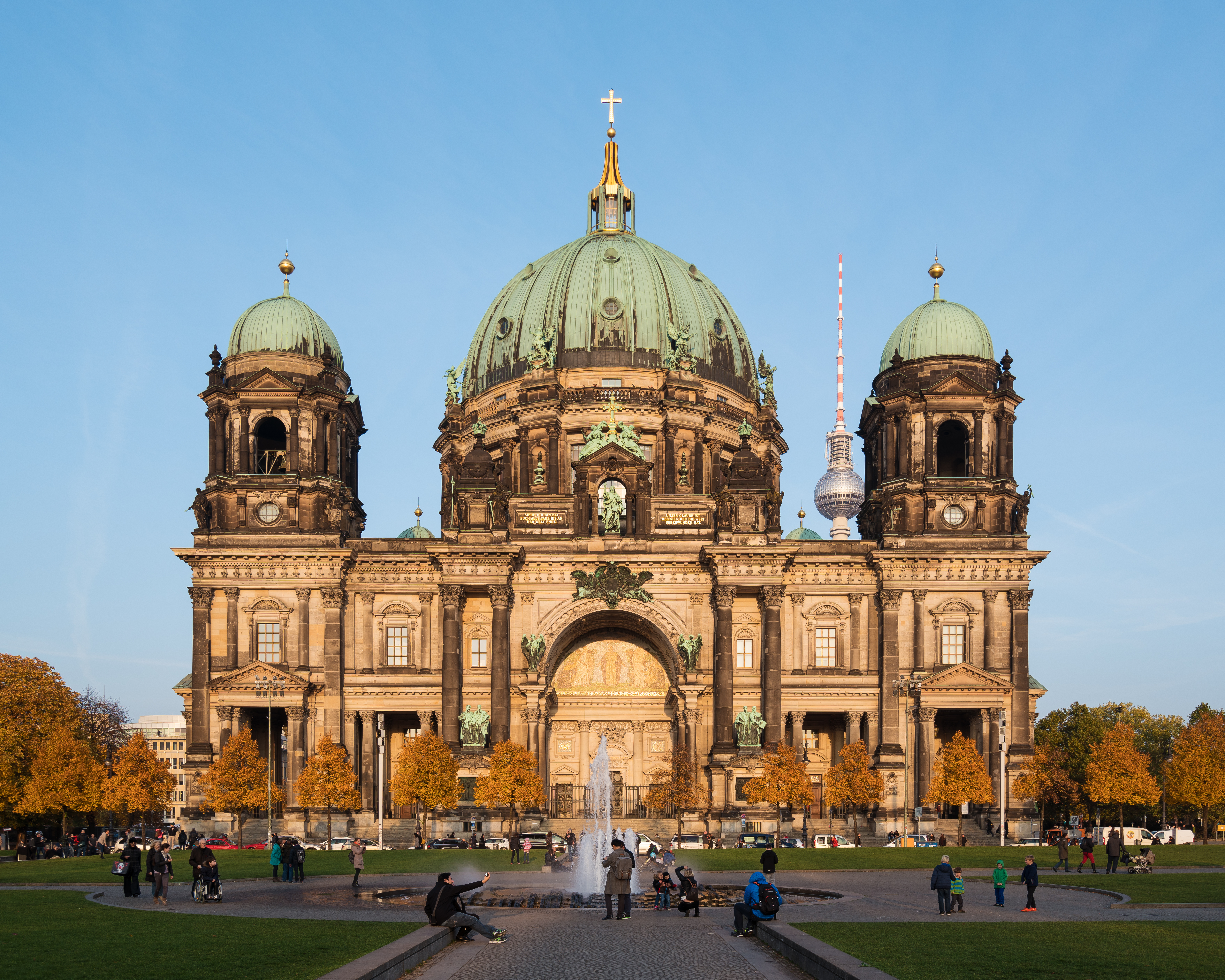 Berlin Cathedral before sunset